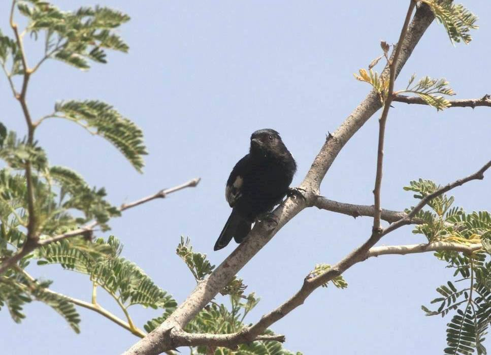 Carp's black tit at Kunene River Lodge on the Kunene River in northern Namibia